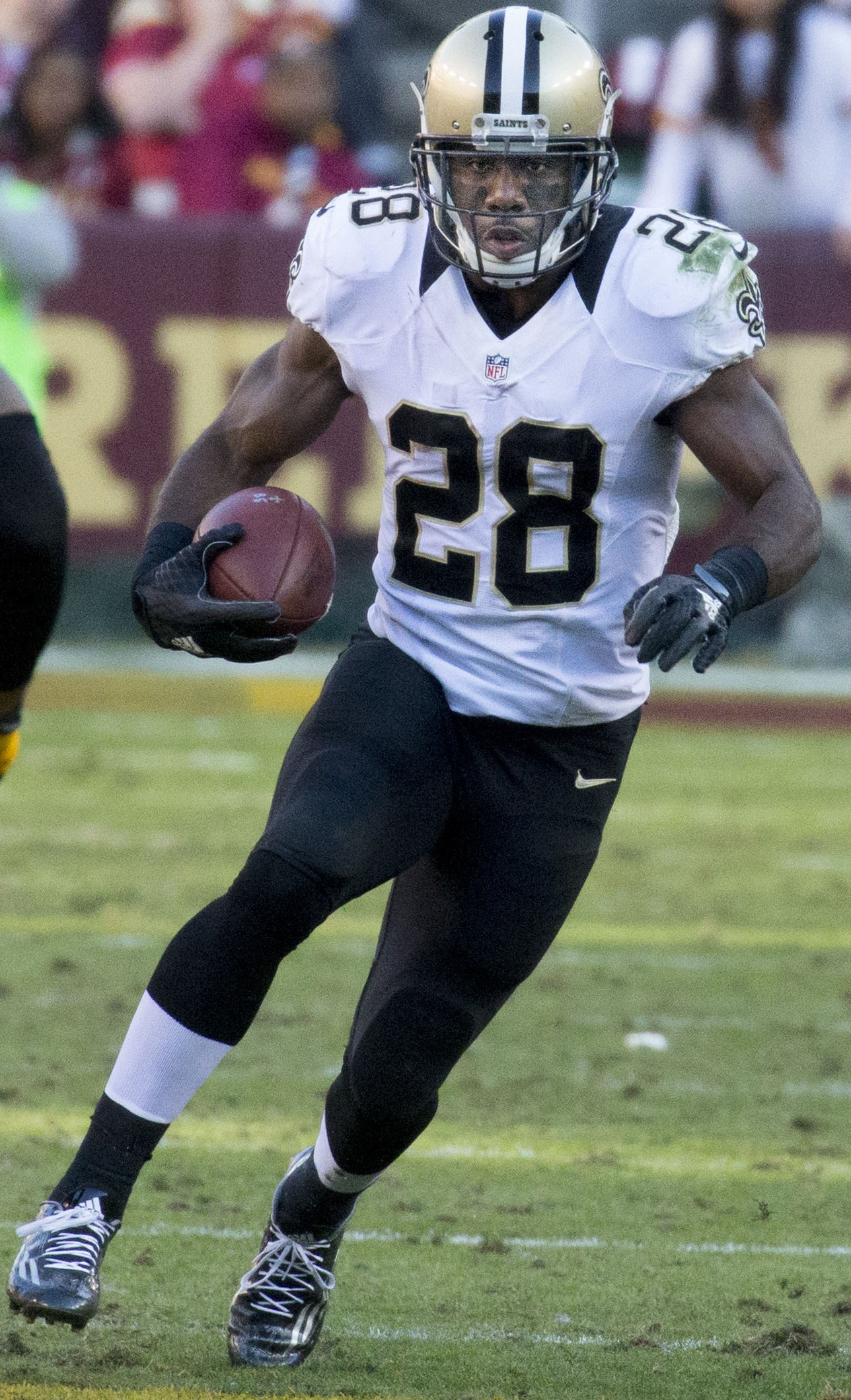 Saints at Redskins 11/15/15